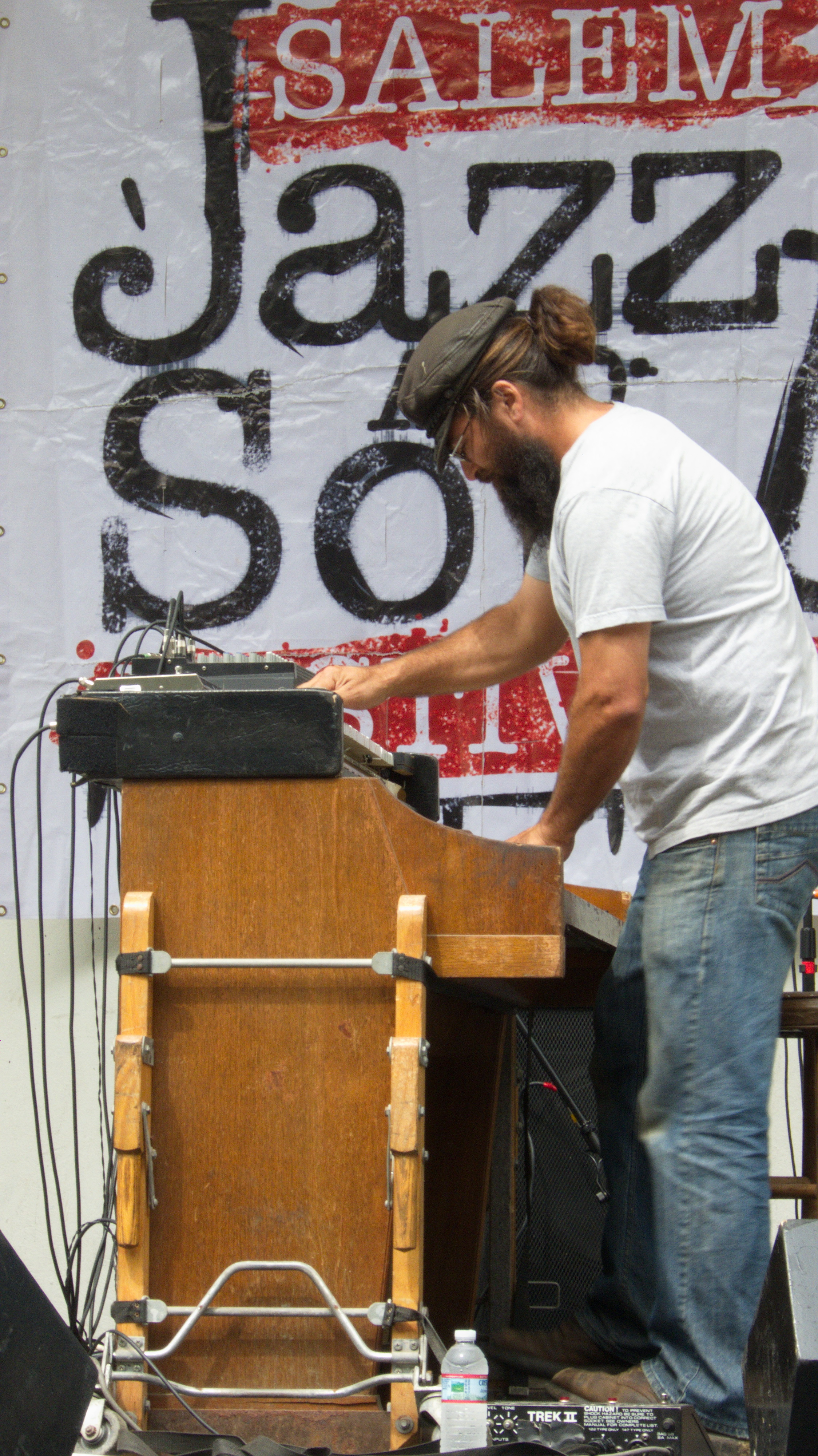 Hammond C3 Organ & Hohner Clavinet E7, on stage, Salem Jazz and Soul Festival 2012 Hohner Clavinet E7 small keyboard mixer Hammond C3 Organ TREK II UC-1A COMBO PRE-AMP (Leslie Speaker Accessories)